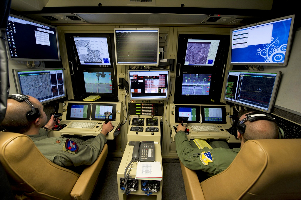 9th Attack Squadron - Training drone control station